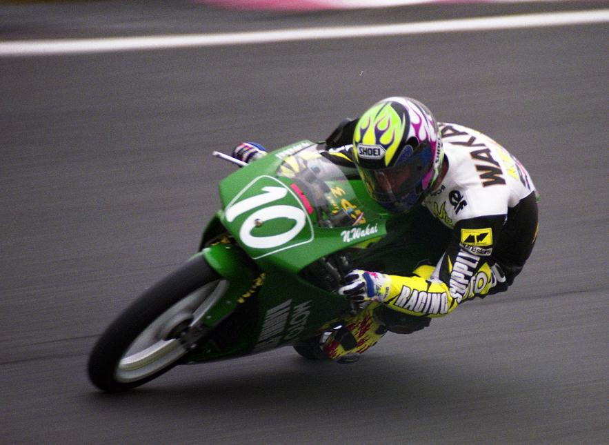 Nobuyuki Wakai, in Japanese Grand Prix 1992